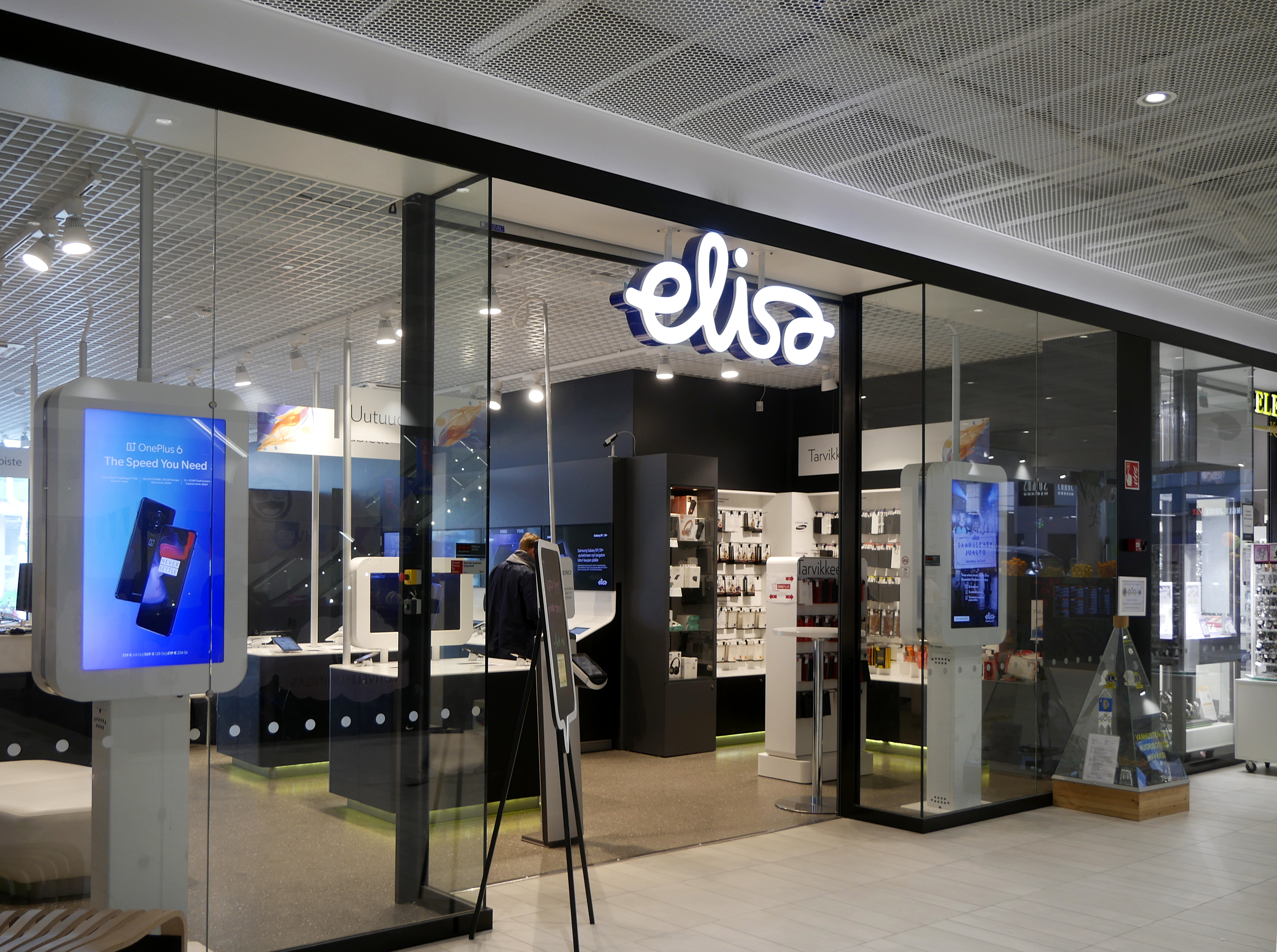 Elisa store in Oulu, Finland.